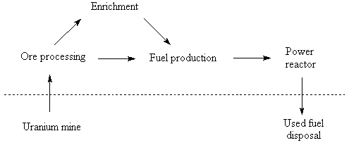 Simple once through nuclear fuel cycle (or chain depending on your POV)